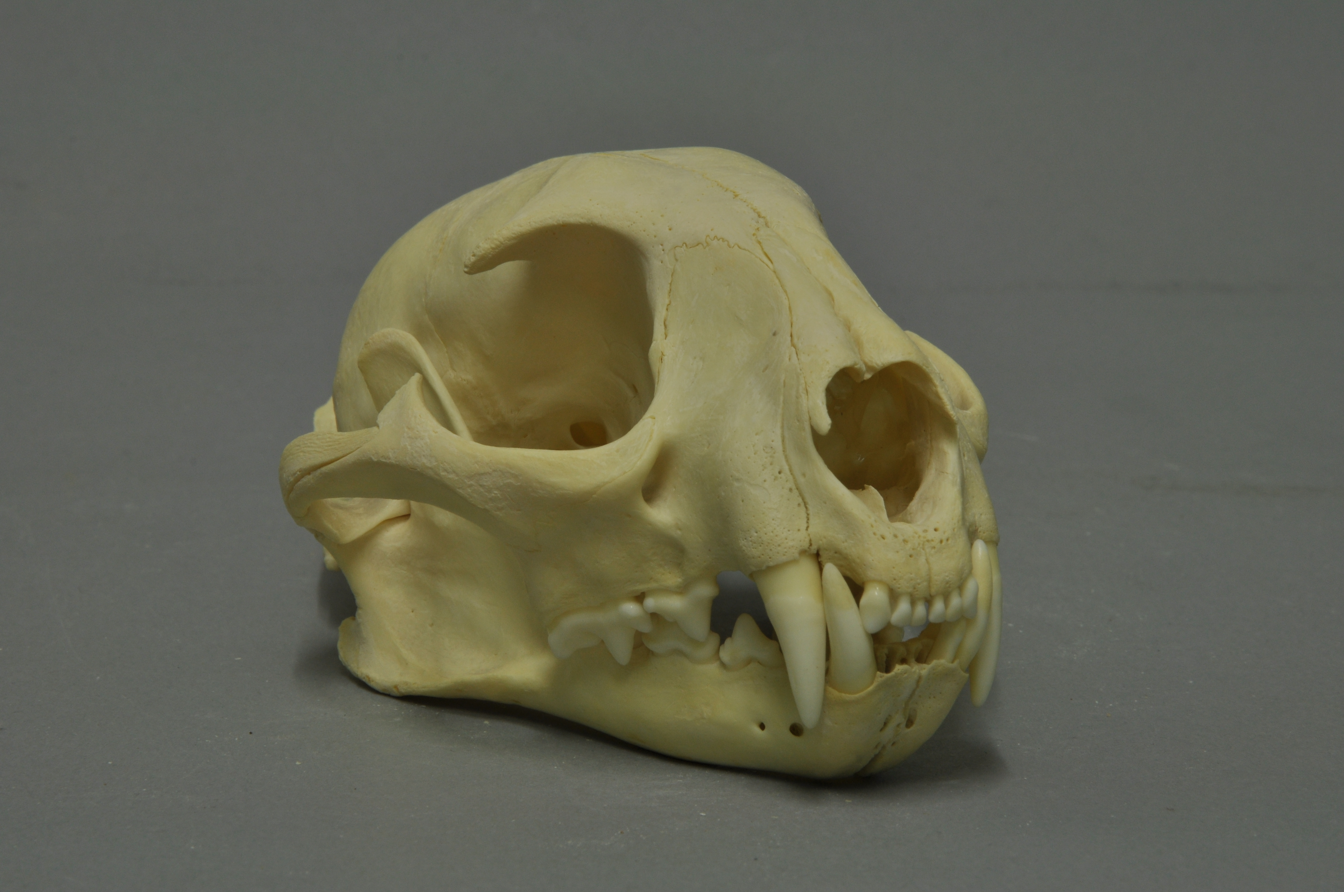 African golden cat Profelis aurata, skull, Coll. Museum Wiesbaden